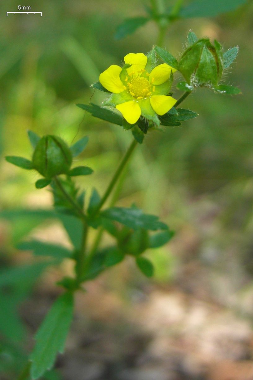 Potentilla norvegica in Edgewood Blue, Wells Gray Park, BC, Canada